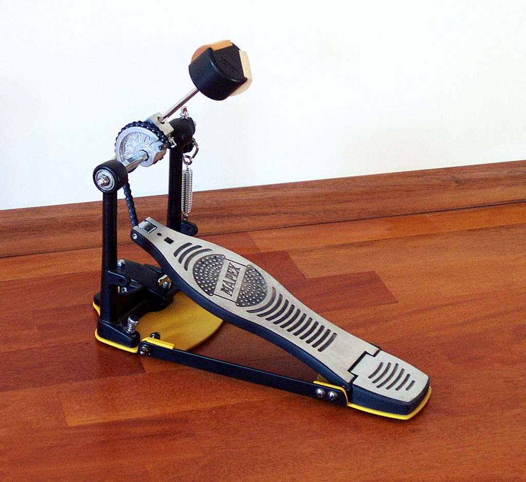 A Mapex bass drum pedal